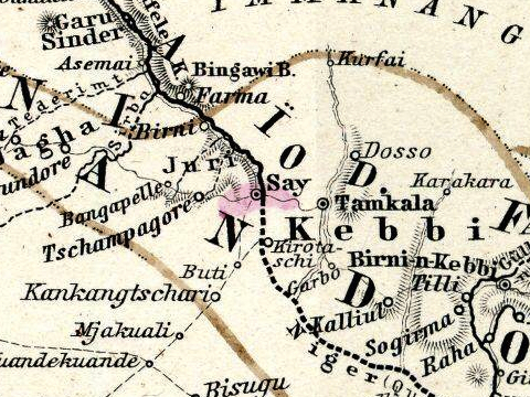 Say in Adolf Stielers Handatlas, 1891.